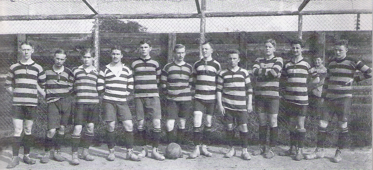 FSV Frankfurt 1902